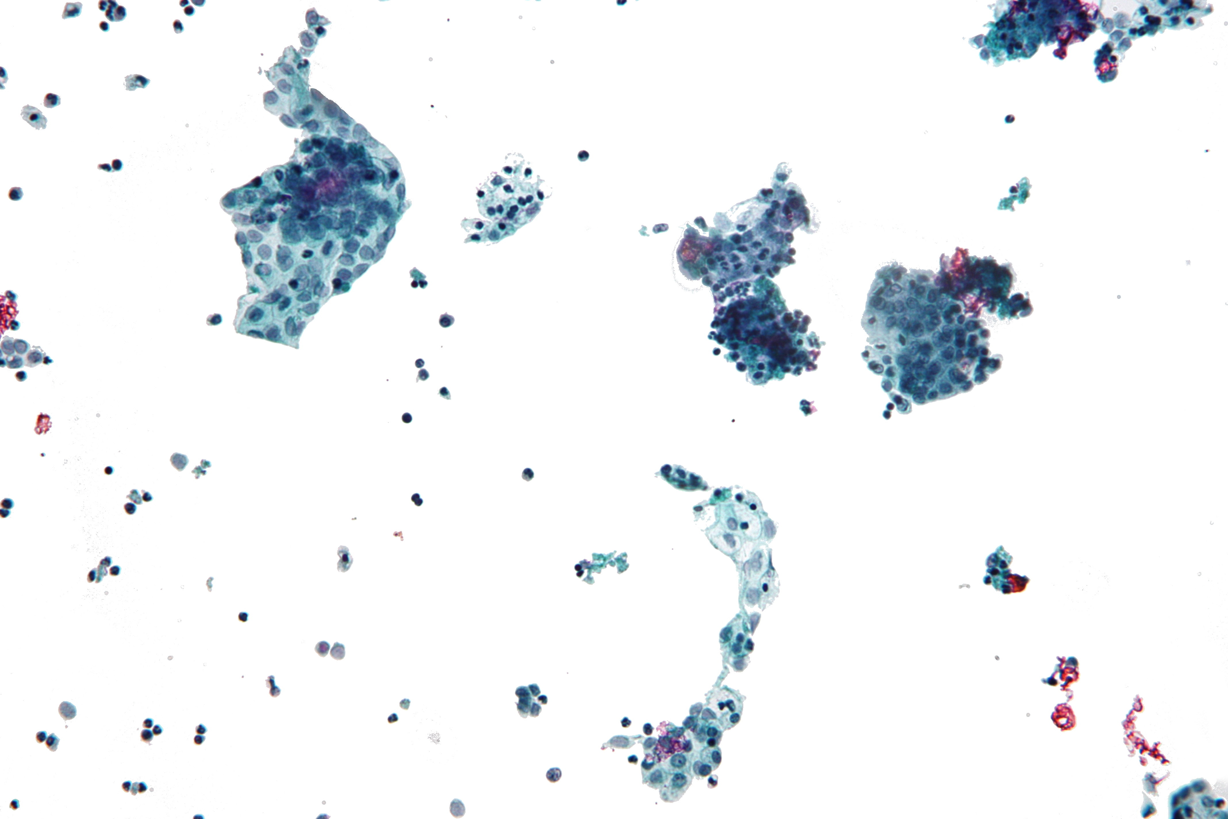 Micrograph of benign mesothelial cells. Peritoneal wash. Pap stain. Related images High mag. Intermed. mag.